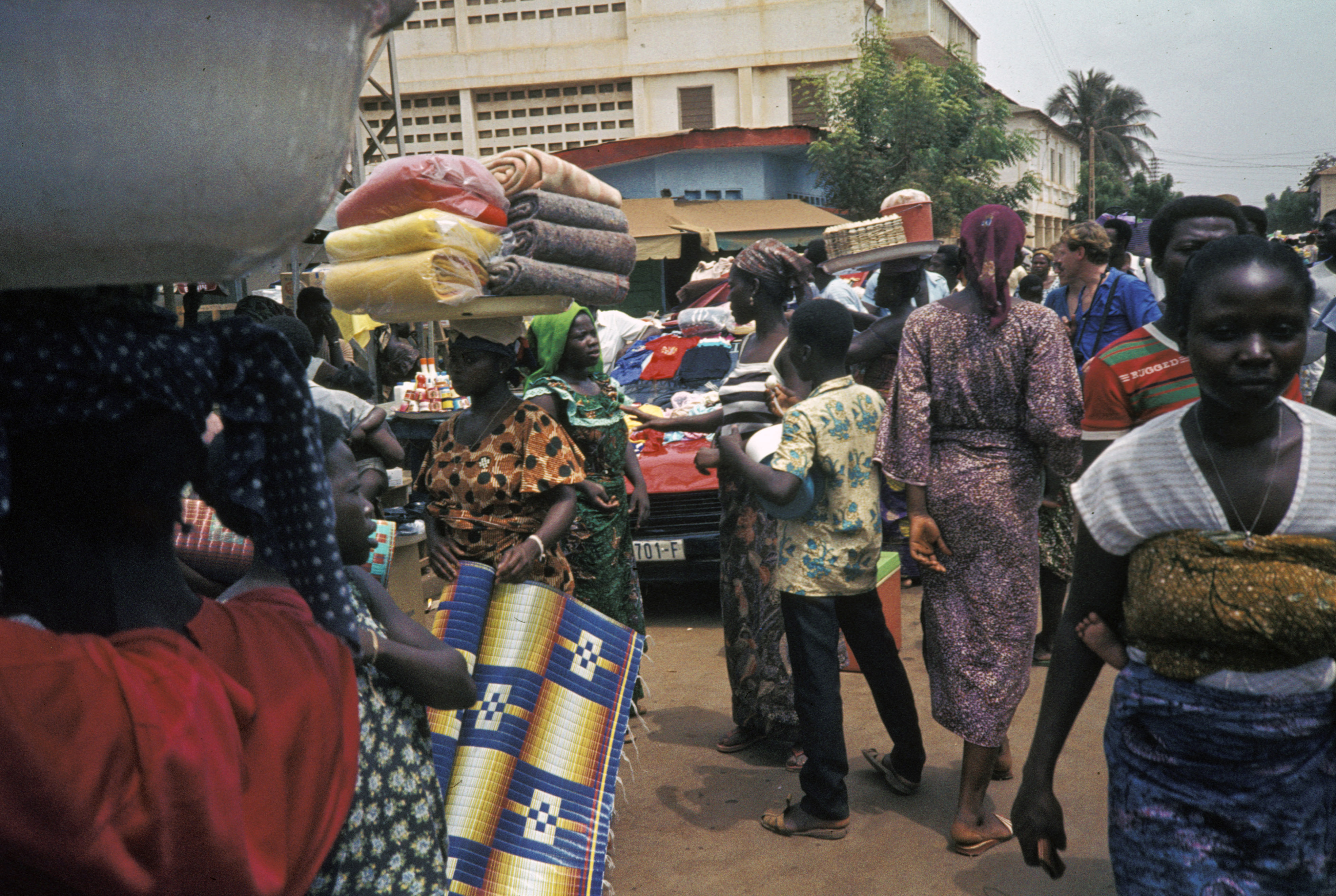 Image from Togo or Benin, Africa in 1985; locality details unknown